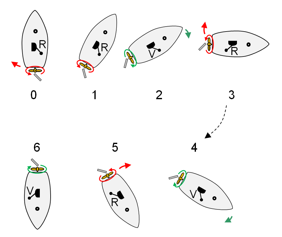 Walking on her wheels with a clockwise propeller